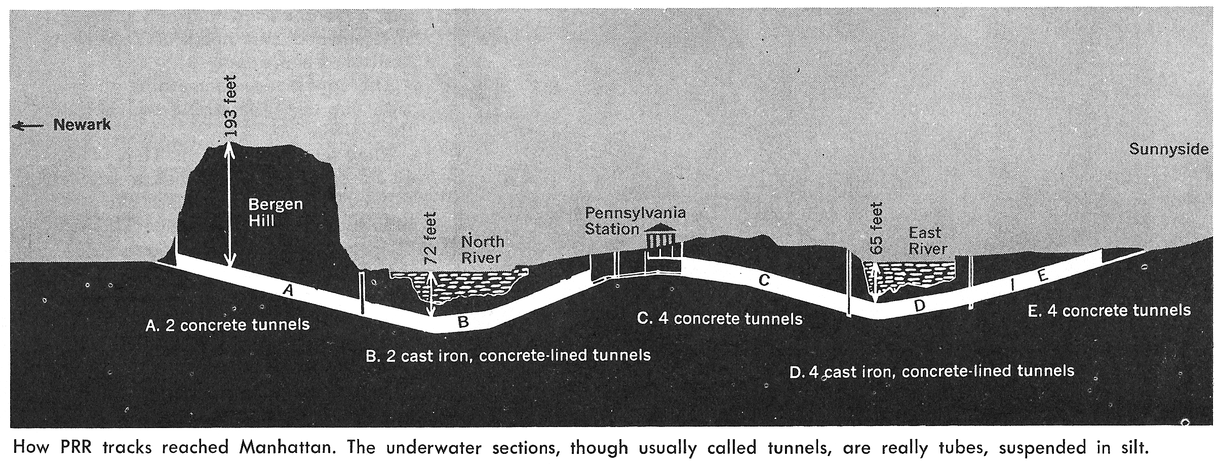 How Pennsylvania Railroad tracks reached Manhattan. The underwater sections, usually called tunnels, are really tubes suspended in silt.